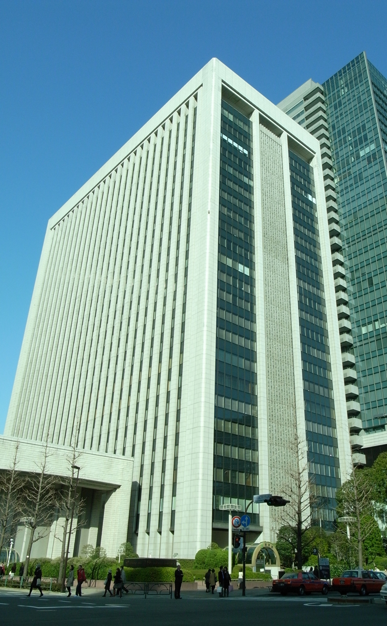 Bank of Tokyo-mitsubishi UFJ main office in Tokyo, Japan.